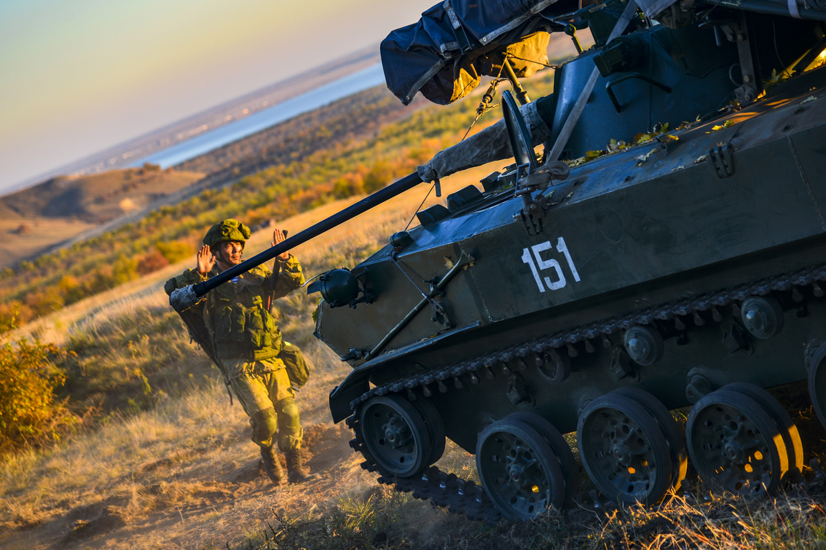 Russian 56th Separate Guards Air Assault Brigade.